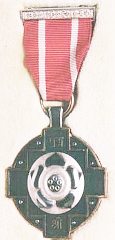 Padma Shri is the fourth highest civilian award in the Republic of India. Awarded by the Government of India, it is announced every year on India's Republic Day